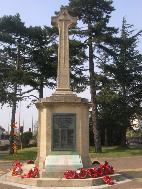 Hendon War Memorial, Watford Way, London NW4